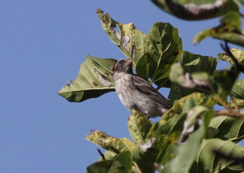 Black-eared seed-eater at Cecil Kop Nature Reserve, Mutare, Zimbabwe